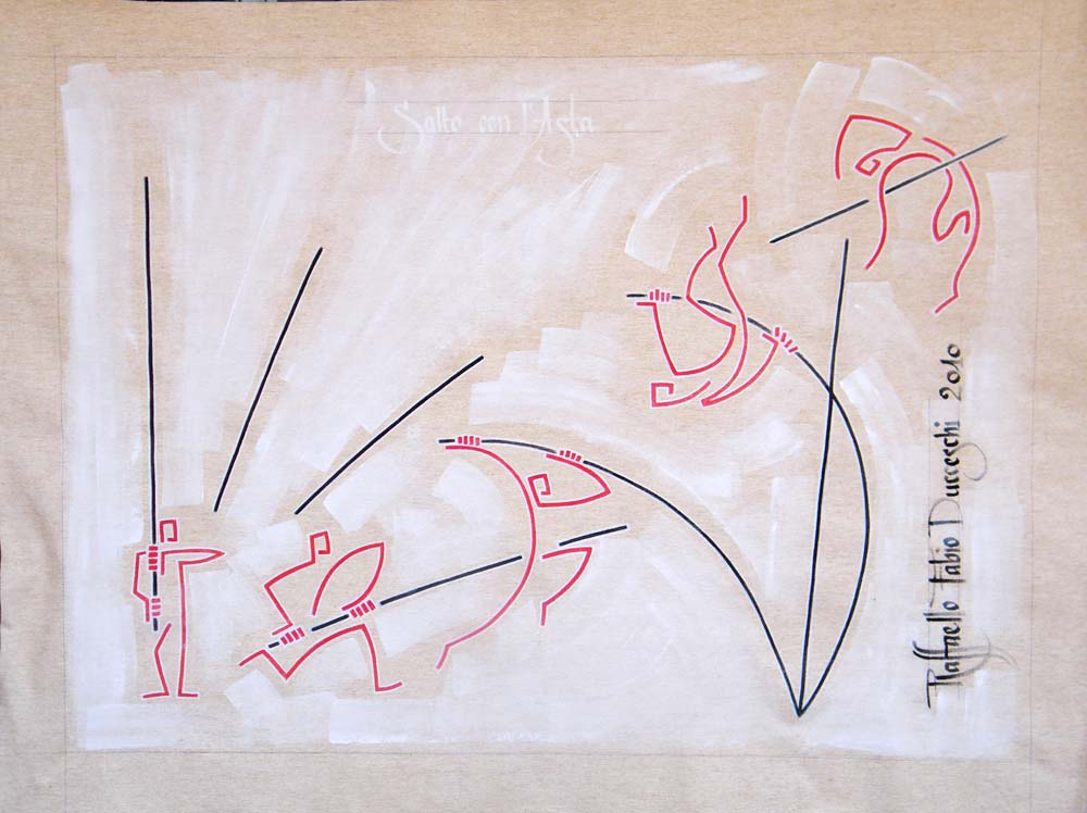 pole vault - track and field, painting of Raffaello Fabio Ducceschi; acrylic on canvas - 67 cm x 91 cm